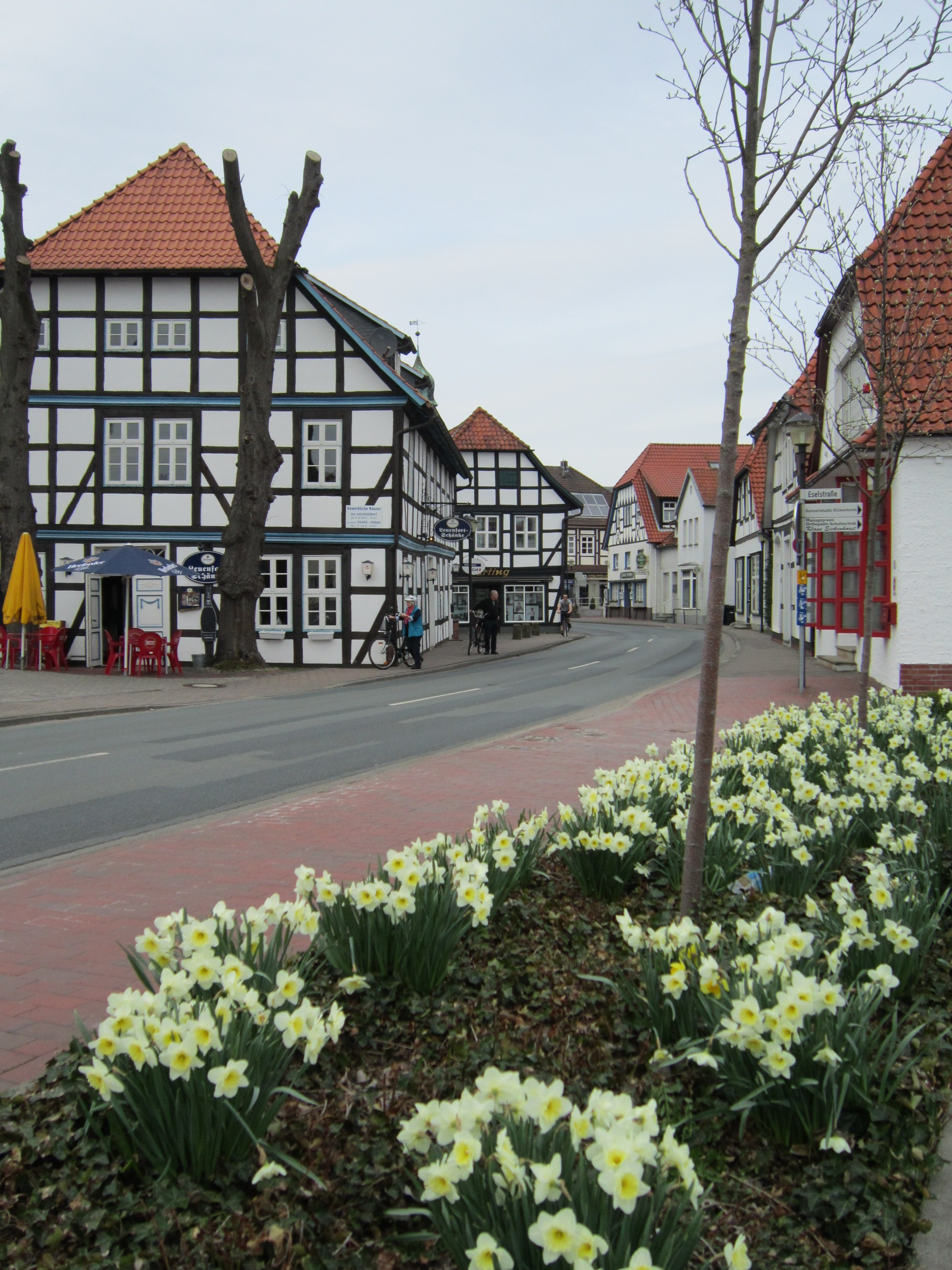 Main Street in Lemförde, Landkreis Diepholz